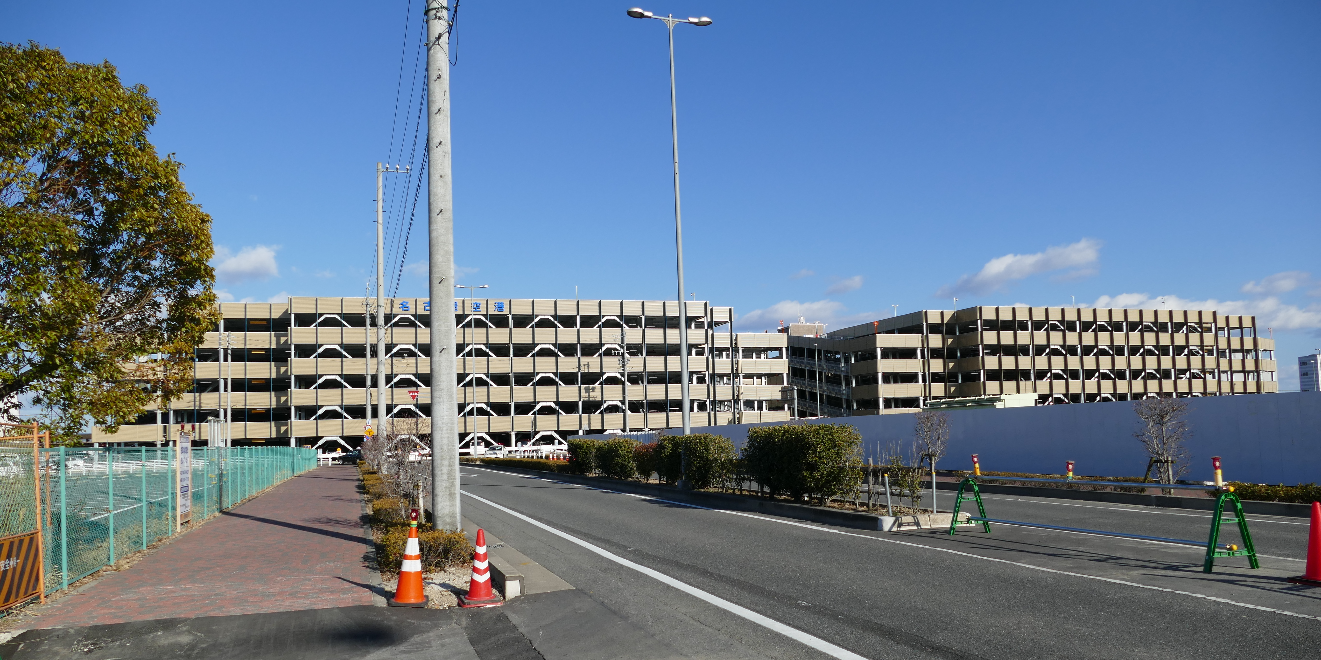 Parkade of Nagoya airfiled,Aichi prefecture, Japan